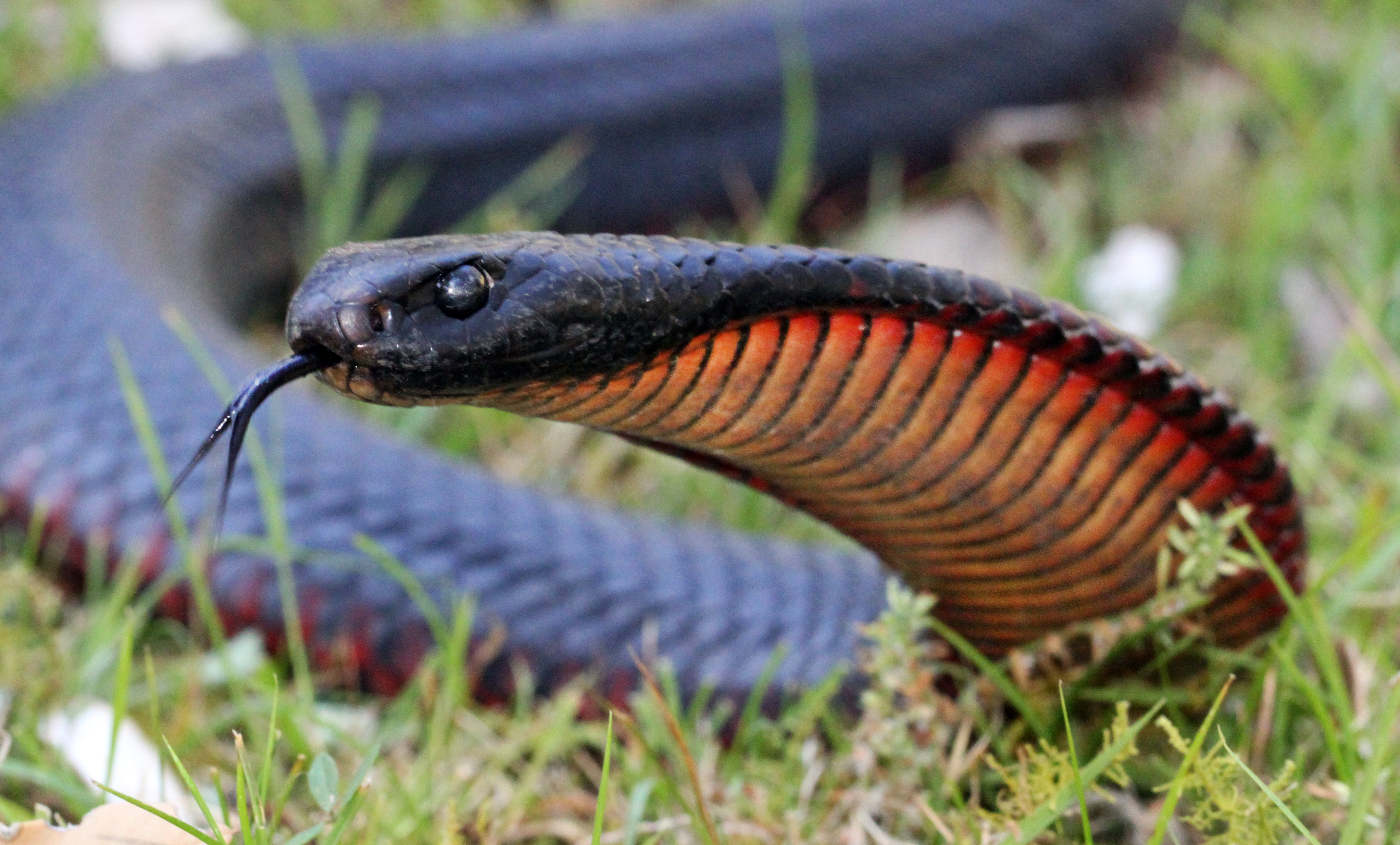 South Coast, NSW.